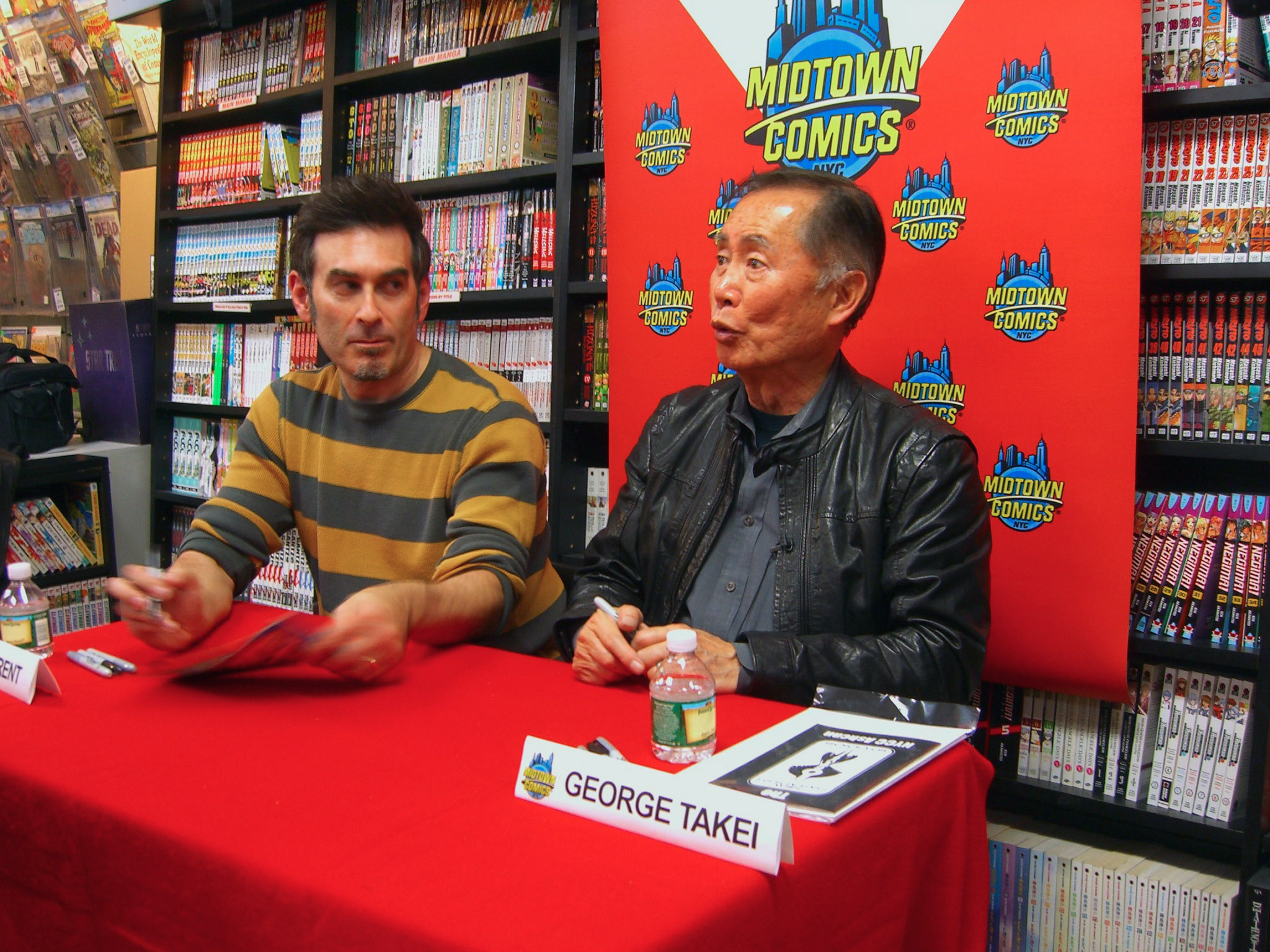 Star Trek actor George Takei and comics writer Dan Parent (barely visible at left) signing autographs for fans at a December 5, 2012 signing for Archie's Pal Kevin Keller #6 at Midtown Comics Times Square in Manhattan. That series stars Kevin Keller, the first openly gay character to appear in Archie Comics, which was created by Parent. Issue #6 guest stars Takei, an LGBT rights activist. This photo was created by Luigi Novi. It is not in the public domain, and use of this file outside of the licensing terms is a copyright violation.